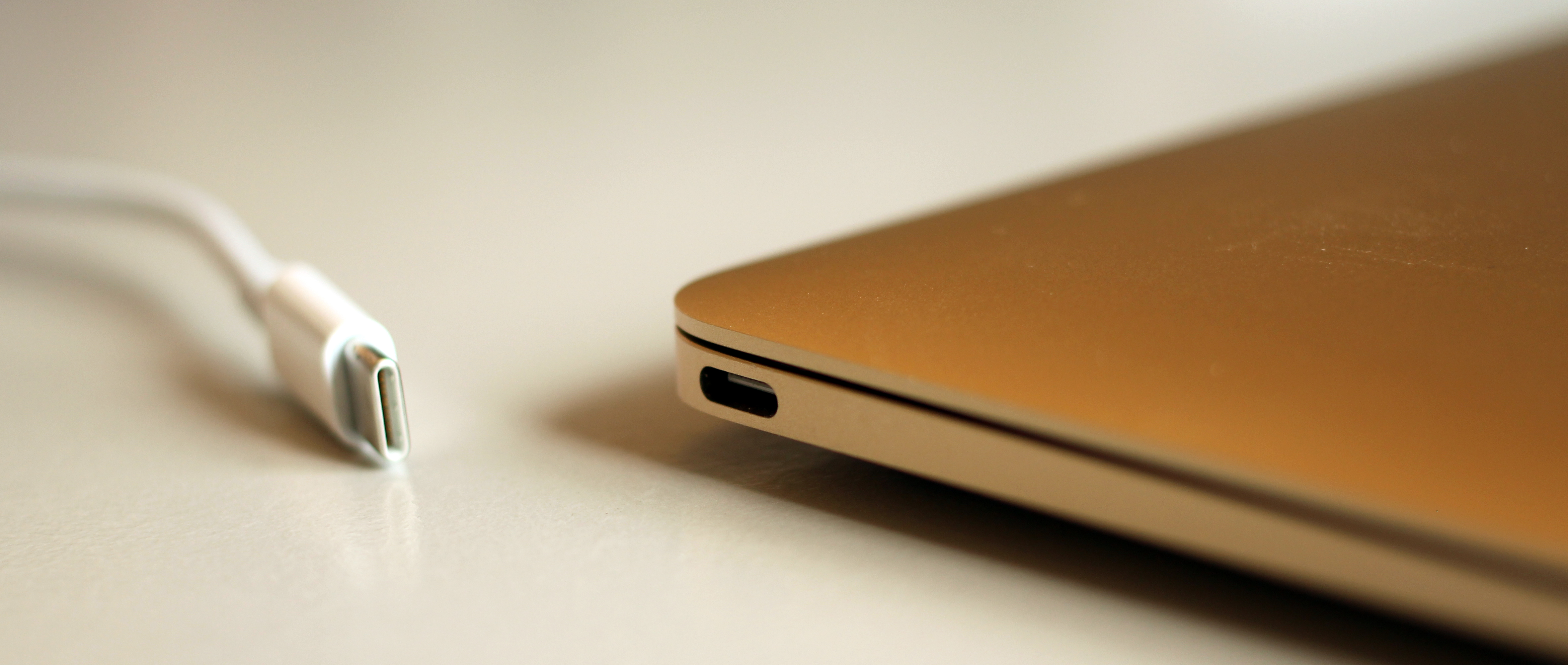 USB Type-C on MacBook